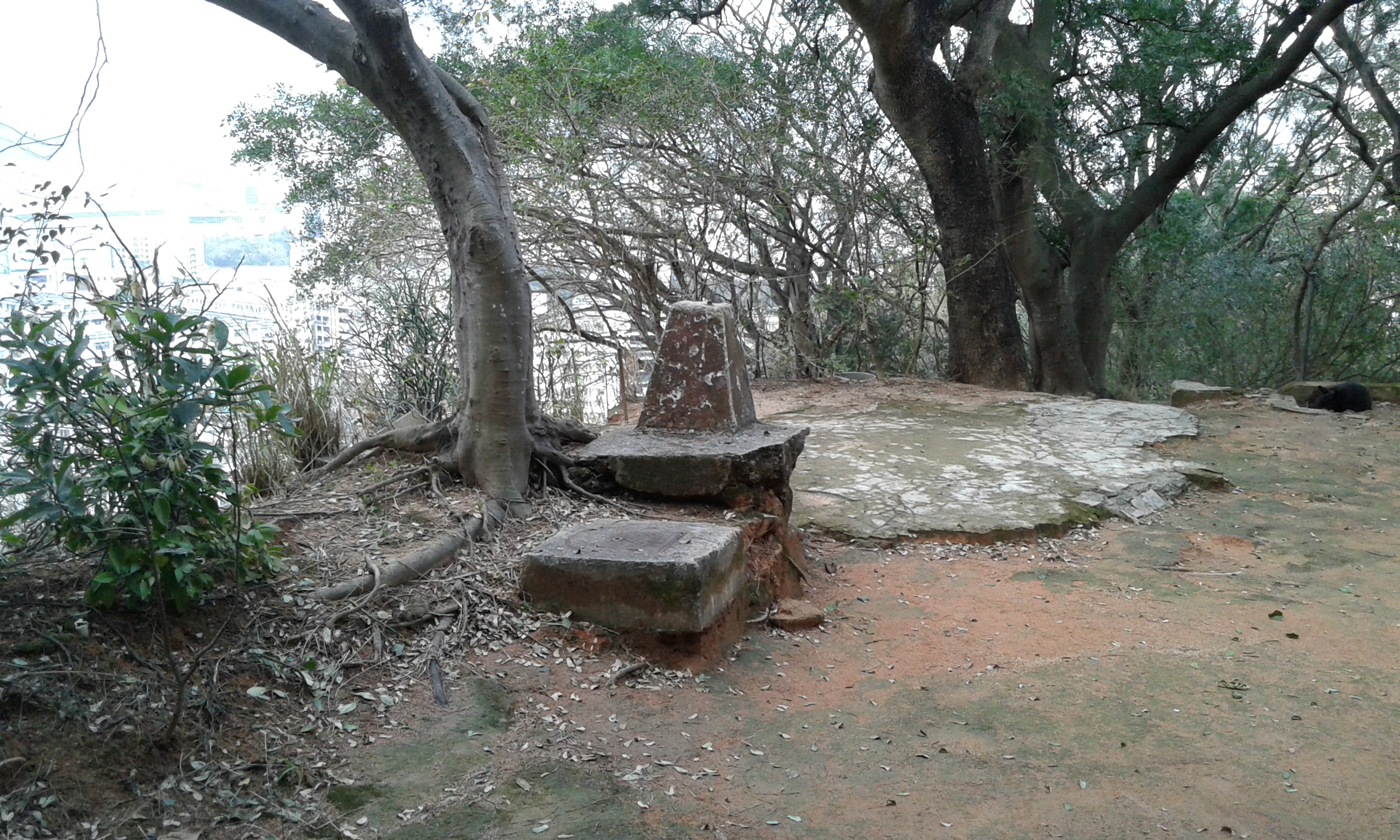 Woh Chai Shan, a hill in Shek Kip Mei, Kowloon, Hong Kong. Open space near the top of the hill.